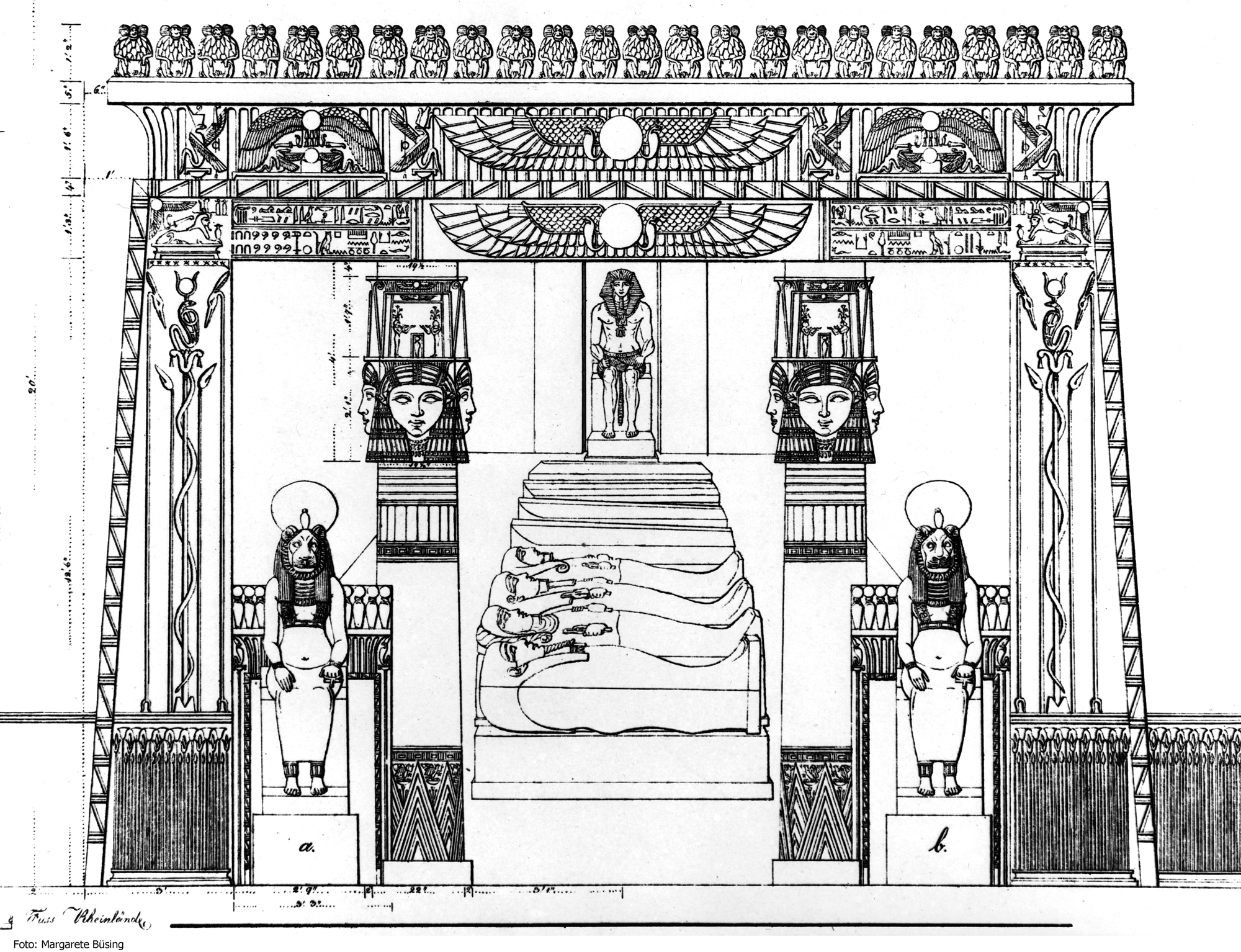 Proposal for the interieur of the Neues Museum Berlin, original drawing by Giuseppe Passalacqua